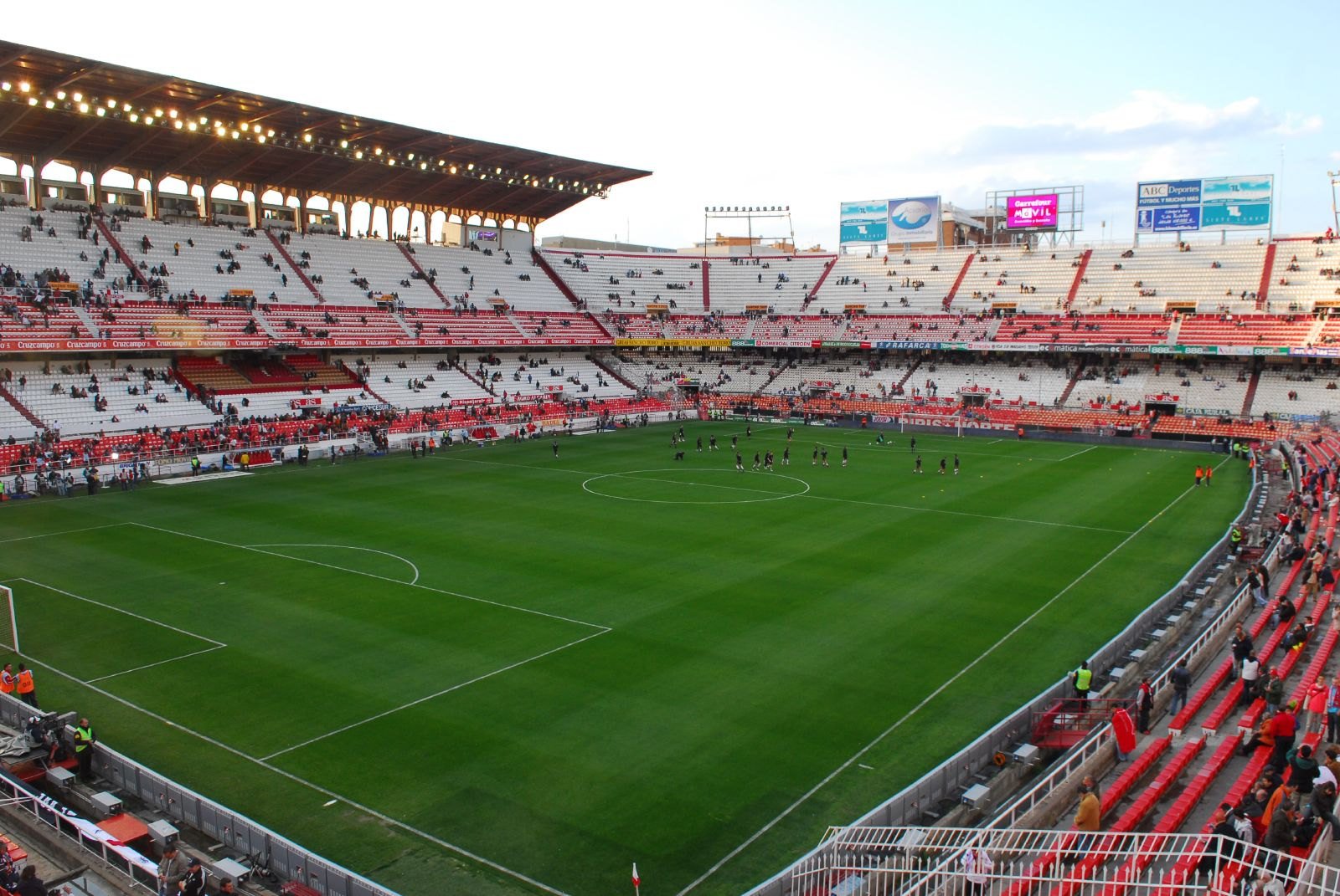 Estadio Ramón Sánchez Pizjuán, Sevilla, Spain. View of the grandstand and Gol Norte.